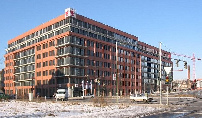 Engeldamm in Berlin-Mitte. ver.di (trade union) central office. This place marks the end of the former Luisenstädtischer Kanal at its flowing to river Spree